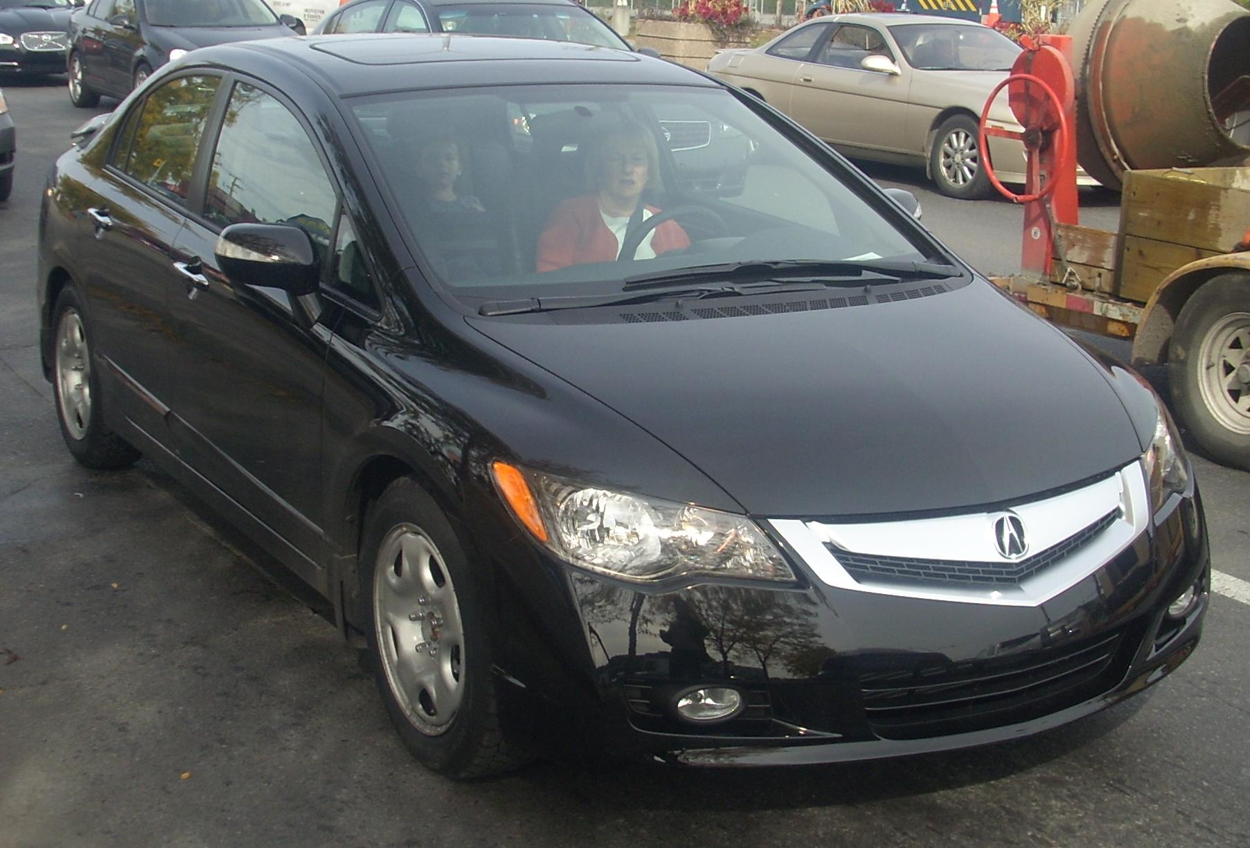 2009 Acura CSX photographed in Montreal, Quebec, Canada.